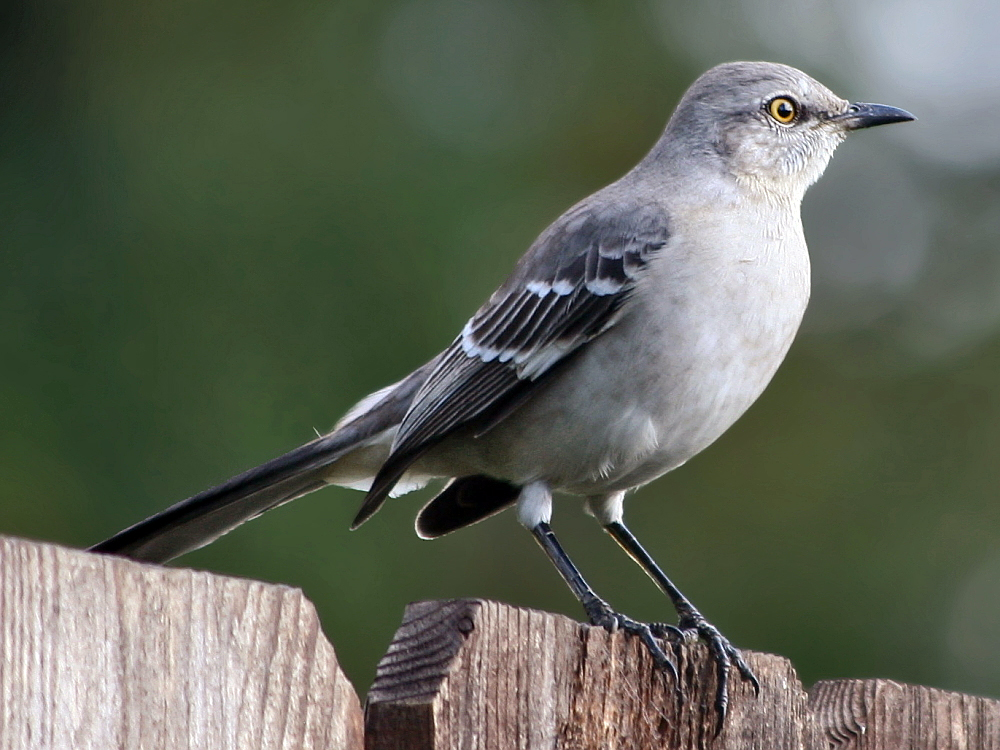 Northern Mockingbird (Mimus polyglottos) on a fence in Lodi, CA, USA.